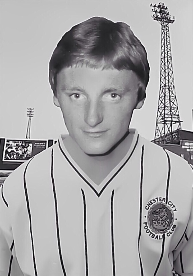 Eddie Rampling Chester City 1966-68 also played for Stalybridge Celtic after leaving Chester City